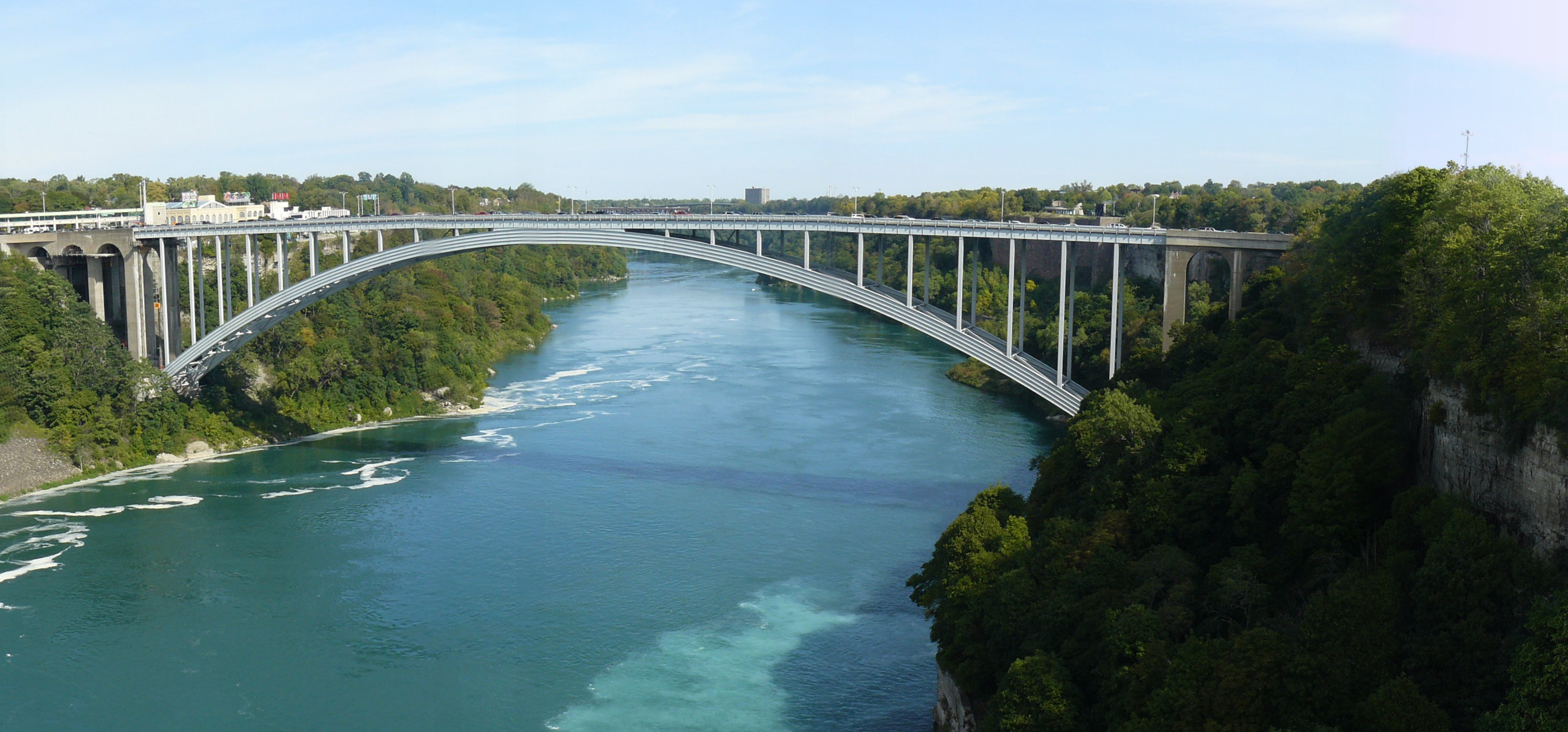 Rainbow Bridge, which connect U.S and Canada near Niagara Falls